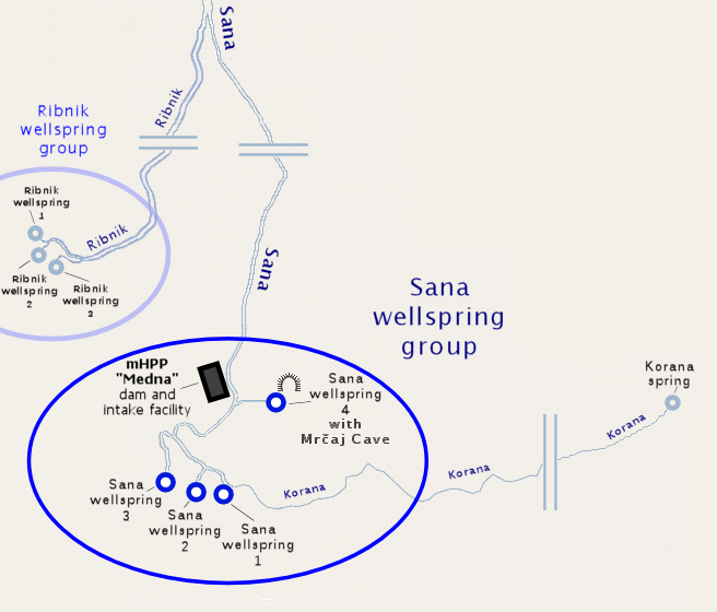 The Sana river wellspring-group with the Korana stream and Mrčaj Cave, and the Ribnik river wellspring-group.